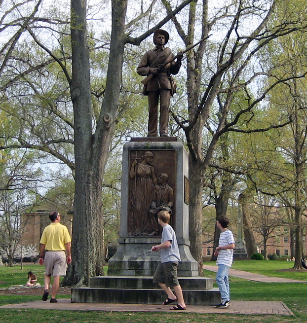 Statue of a Confederate soldier on the campus of The University of North Carolina at Chapel Hill.